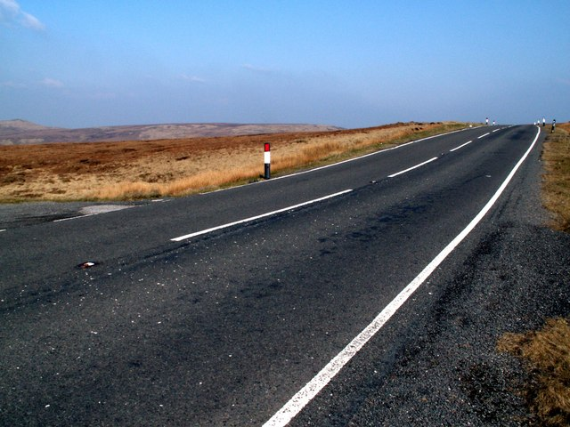 A635 Holmfirth to Greenfield Road At this point the road crosses over Hoe Grain water course, which runs under the road from bottom right hand corner to middle left of photo.